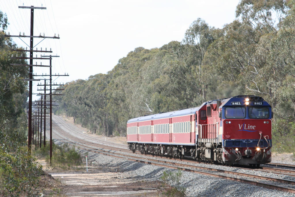 V/Line passenger train lead by N class locomotive, between Mangalore and Seymour stations, North East railway line, Victoria, Australia